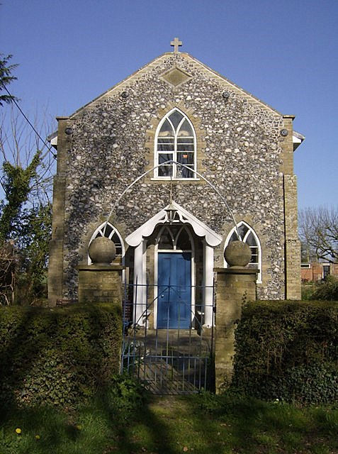 Wesleyan Chapel, Chapel Lane, Ilketshall St Andrew, Suffolk